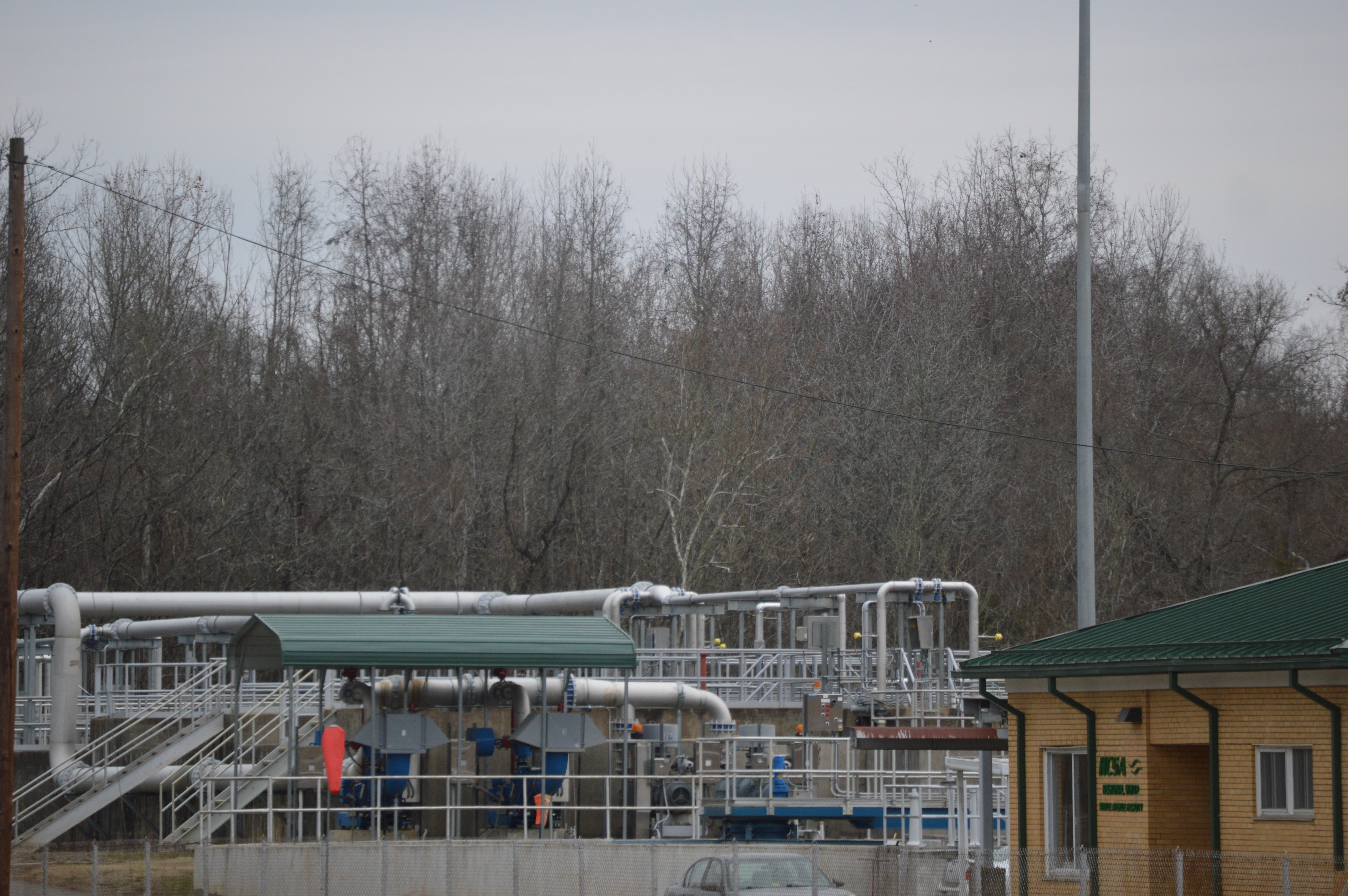 Part of the South Boston water treatment plant, located at the end of Maple Avenue in South Boston, Virginia, United States. In the woods in the distance is a significant archaeological site, the Reedy Creek Site, which is listed on the National Register of Historic Places.